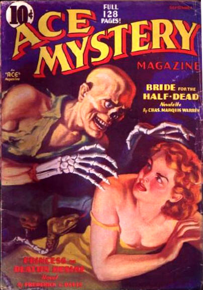 Ace Mystery, September 1936